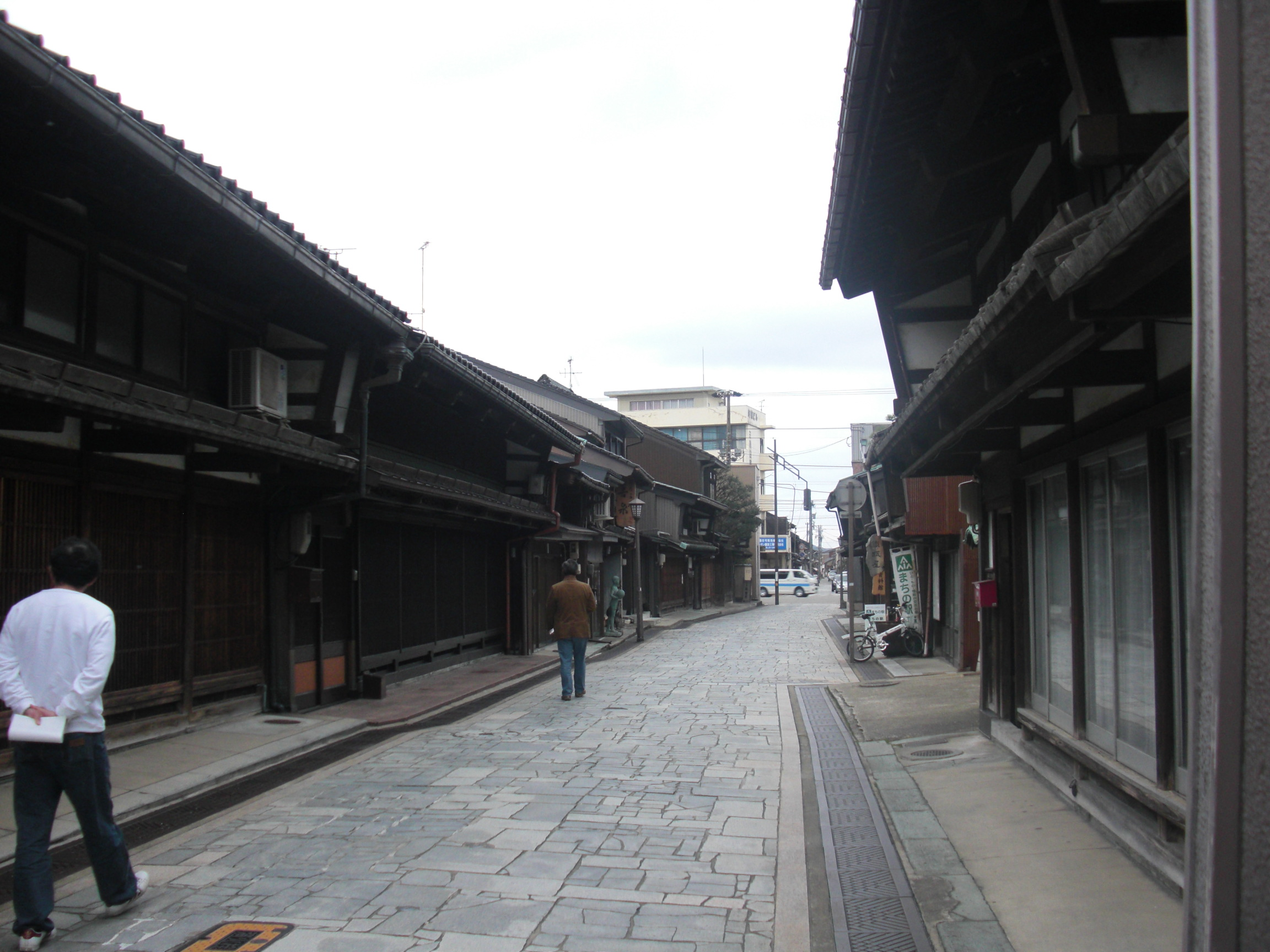 This is a landscape of Kanaya-machi, Takaoka, Toyama, Japan.